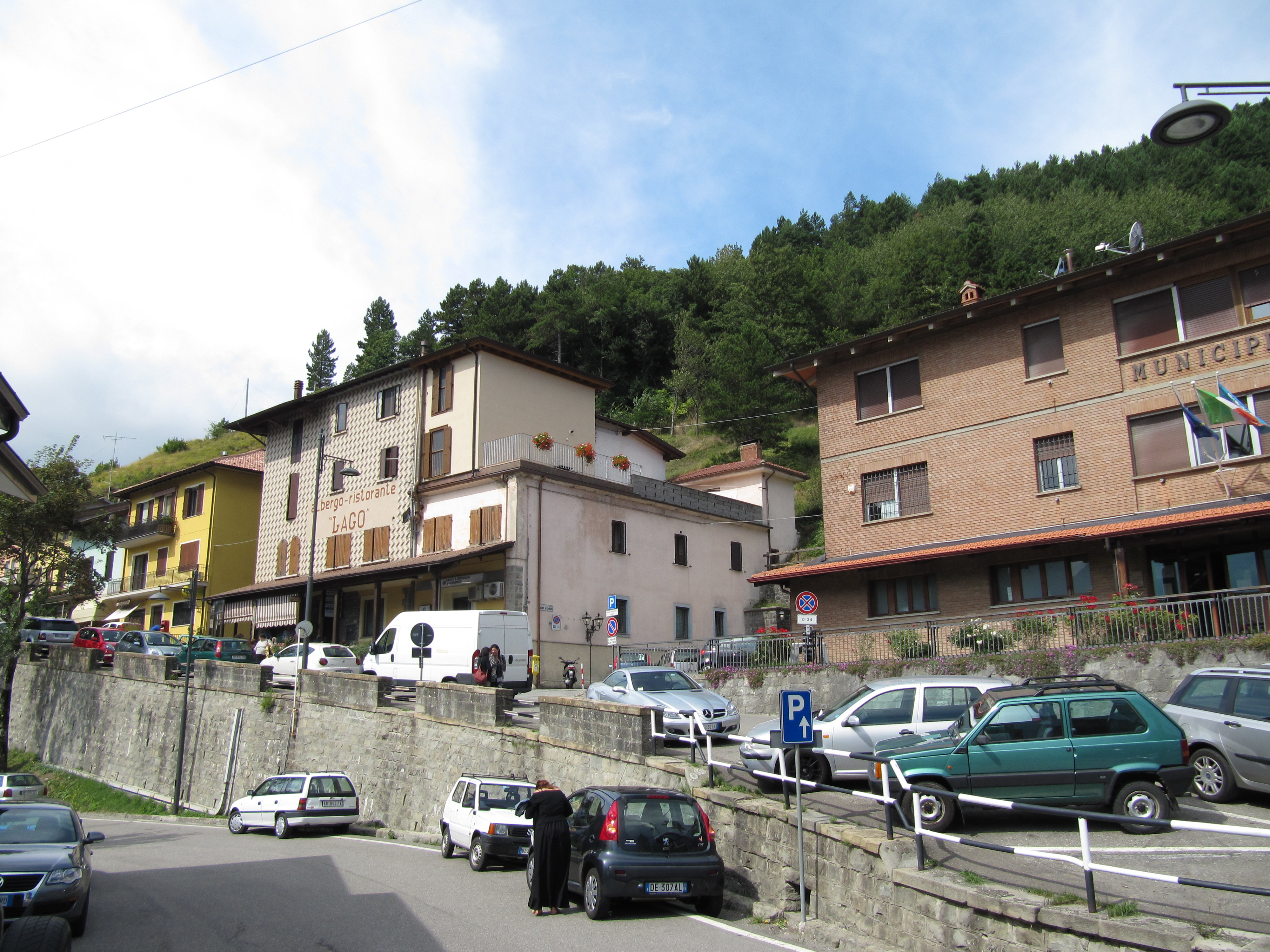 Il centro di Ligonchio